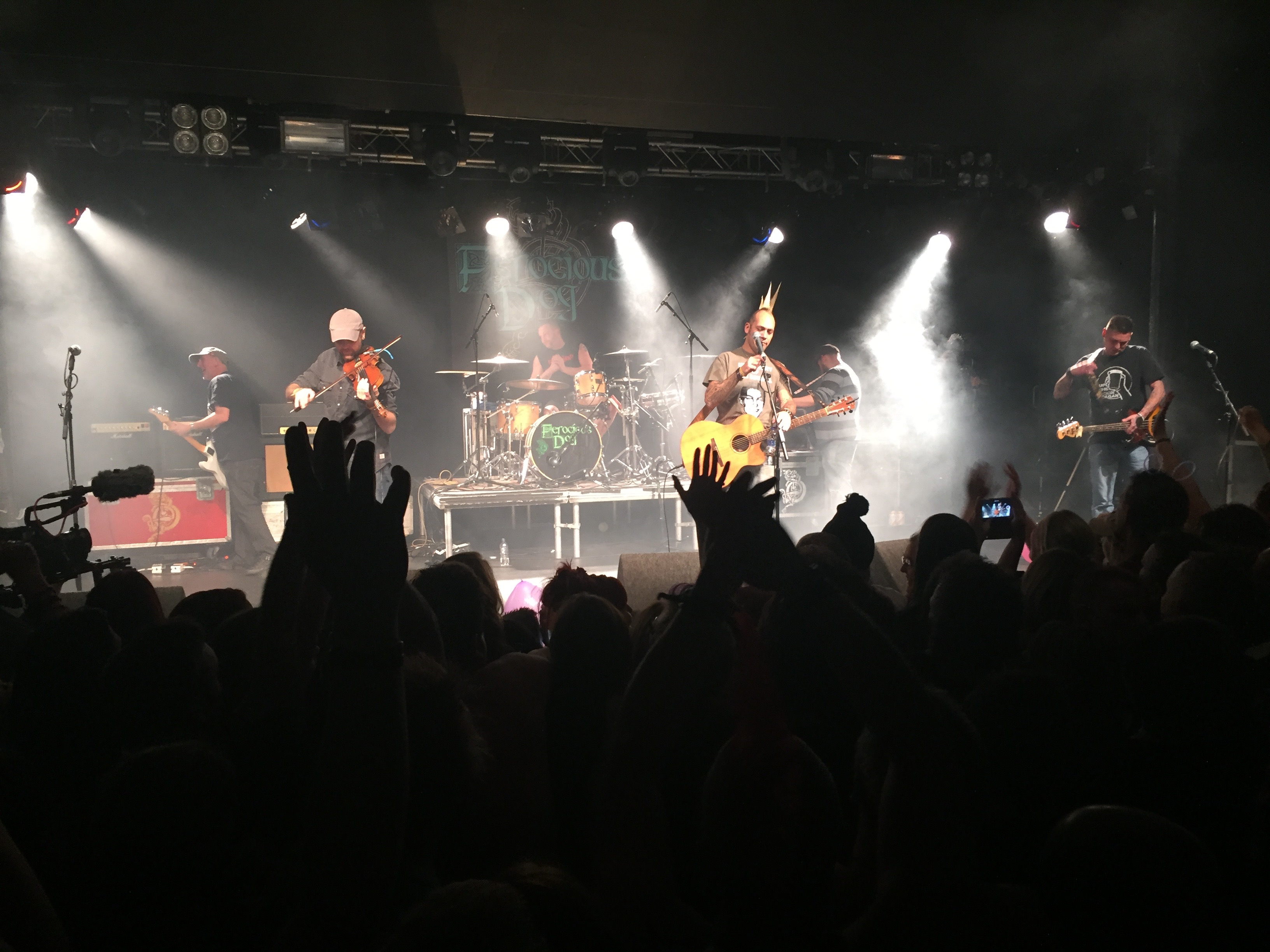 Ferocious Dog at their sold out show at Nottingham's Rock City